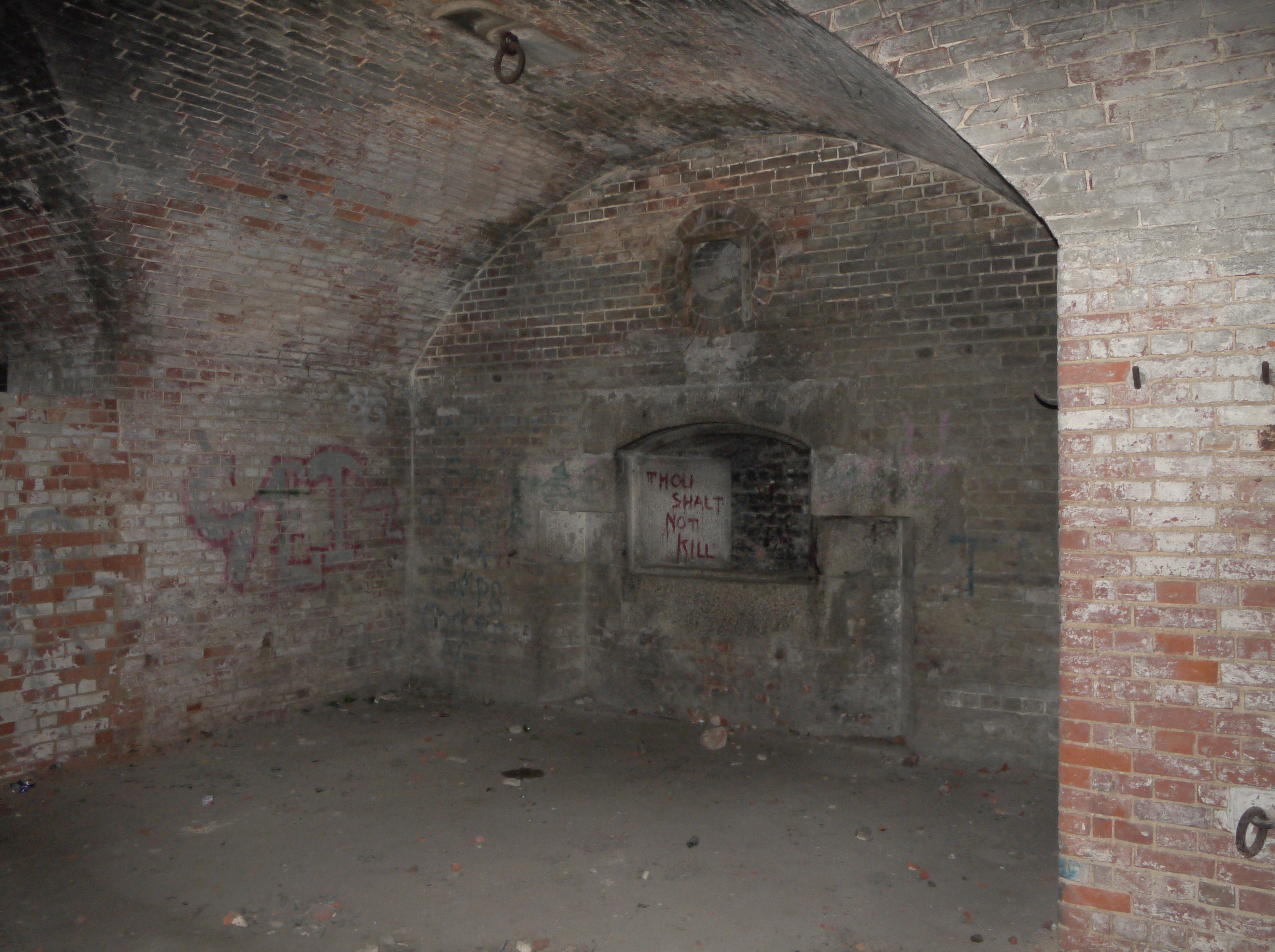 Photo of one of the gun casements of the Hilsea lines